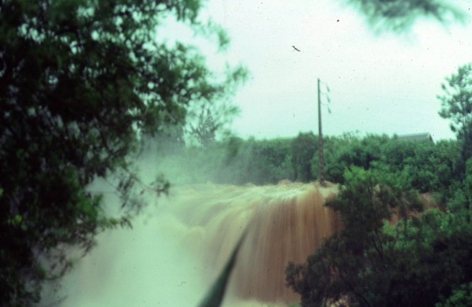 Flooding of ravine Blanche during Hurricane Hyacinthe at Le Tampon, La Réunion, France.